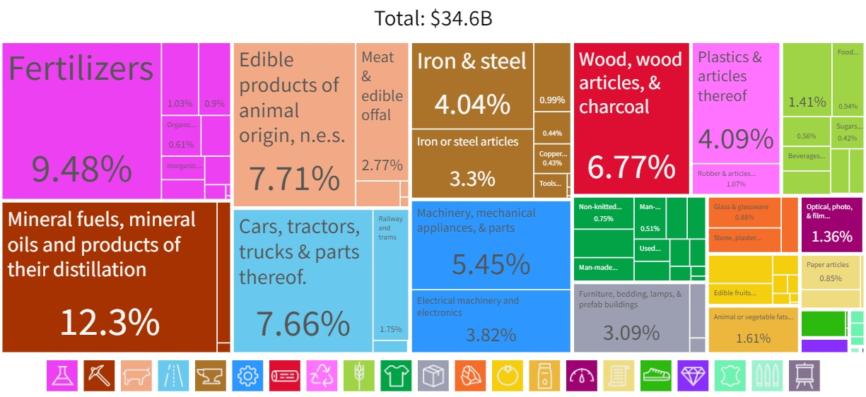 Export Trading Treemap. From MIT/Harvard Atlas of Economic Complexity